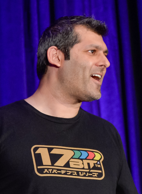 Flying by the Seat of Our Pants: GALAK-Z Raj Joshi | Studio Director, 17-BIT Location: Room 2005, West Hall Date: Tuesday, March 15 Time: 4:40pm - 5:10pm